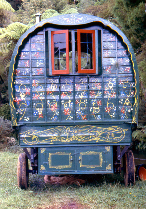 Image (photograph) taken at the 1981 Nambassa 5 day festival by Official Nambassa Photographer and uploaded by User: Mombas 03:25, 7 May 2007 (UTC) Nambassa dot com Terms of Use: 1/ All users of this image are required to attribute this work to "Nambassa Trust and Peter Terry" and the url: " " is to accompany all use. 2/ Attribution. You must attribute the work in the manner specified by the author or licensor. 3/ For any reuse or distribution, you must make clear to others the license terms of this work. Statement by Nambassa Trust and Peter Terry